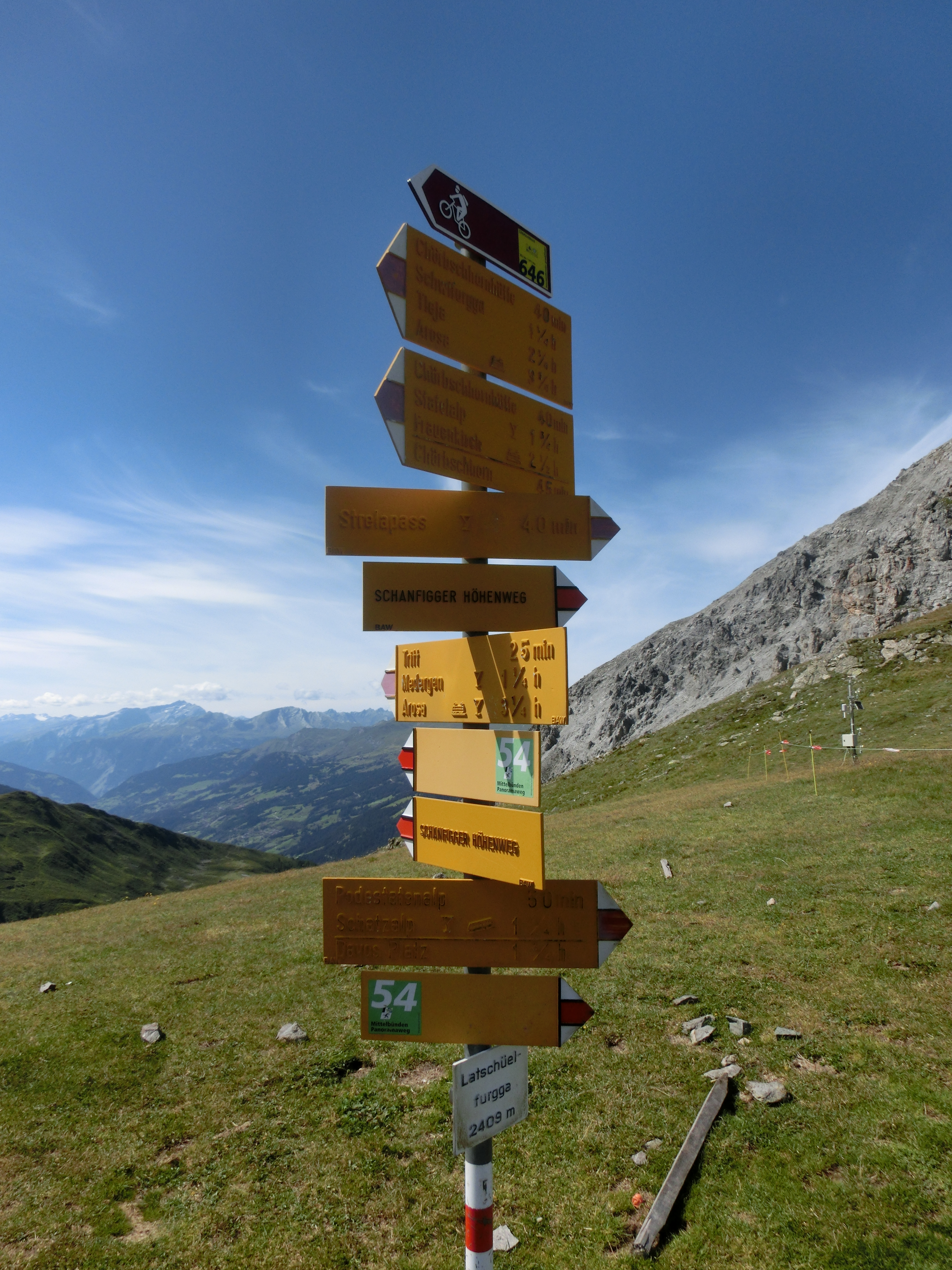 Fingerpost on Latschüelfurgga, Arosa, Davos, Grison, Switzerland